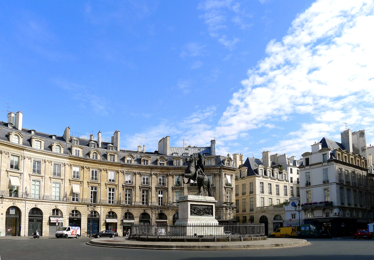 Victoires place - Paris